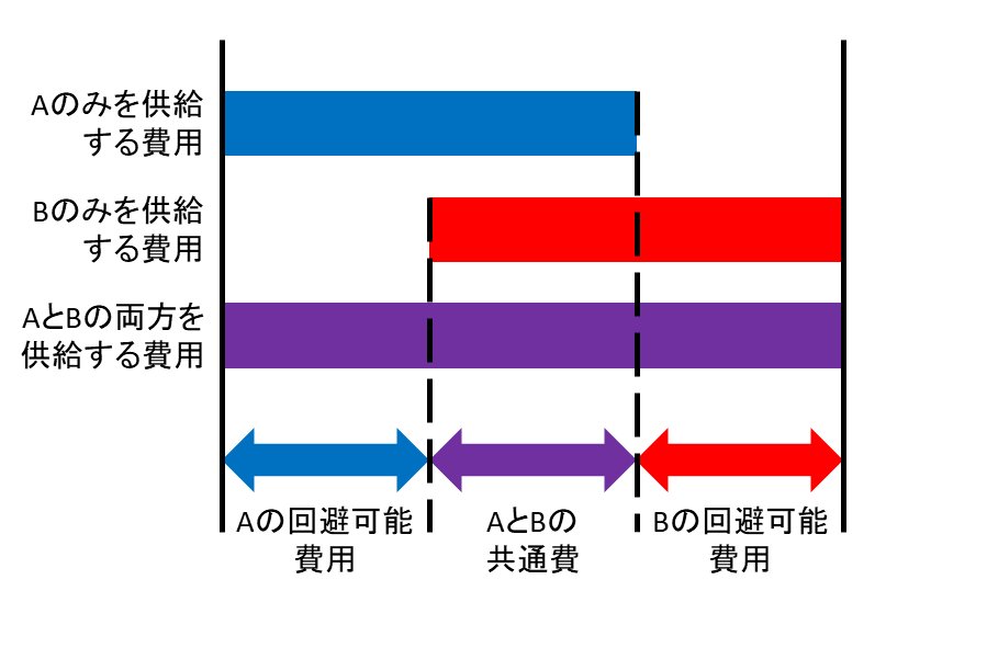 Figure describing common cost and avoidable costs when providing products/services A and B with Japanese description.